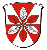 Coat of Arms of Hohenroda